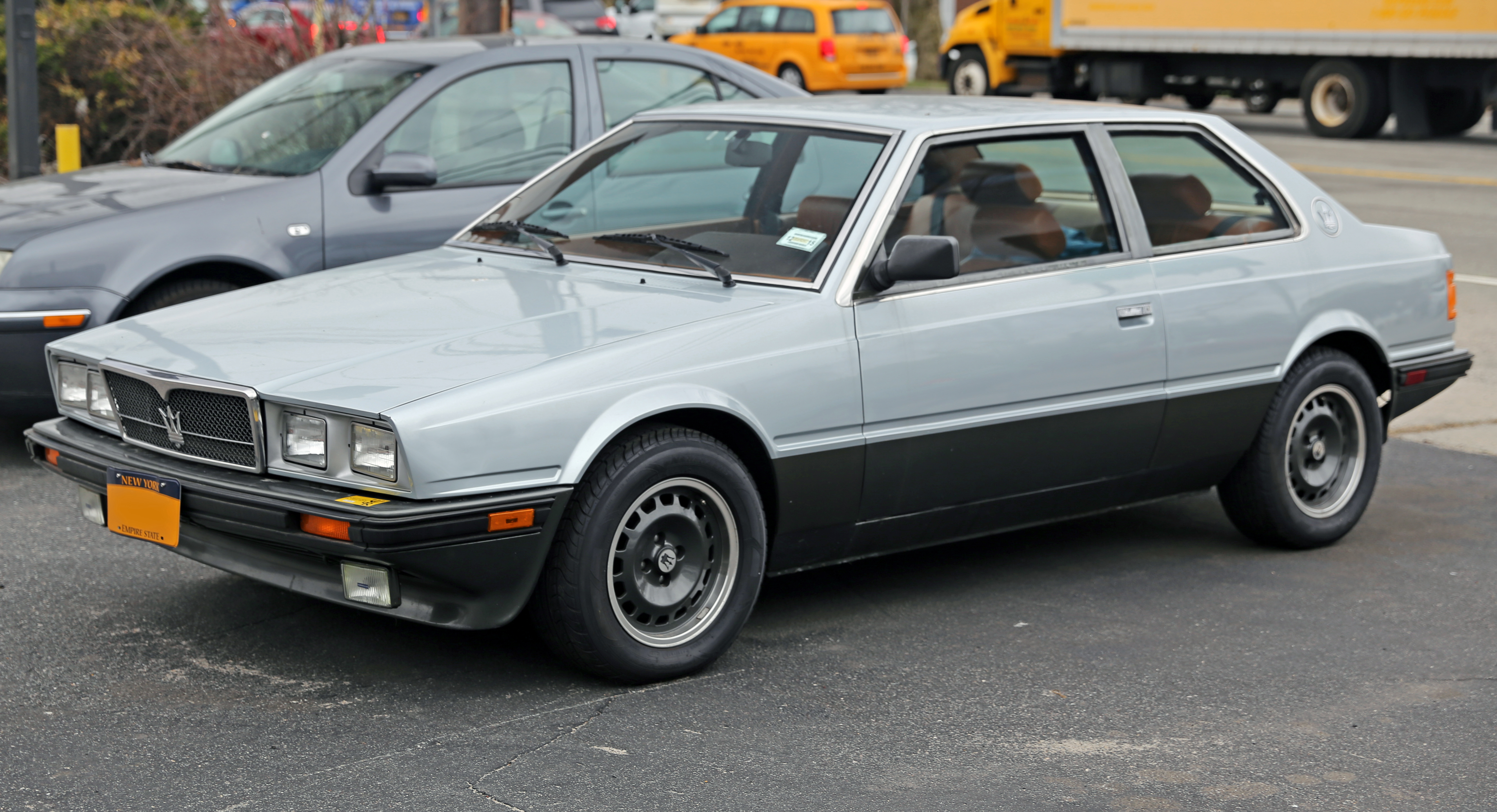 A 1985 Maserati Biturbo E, tipo AM 331B25. 2.5 litre twin-turbo V6, built in Modena. 1190 Maseratis were sold in the US in 1985. The "E" was a better equipped, sportier, version of the 2.5 litre Biturbo as sold in most export markets.